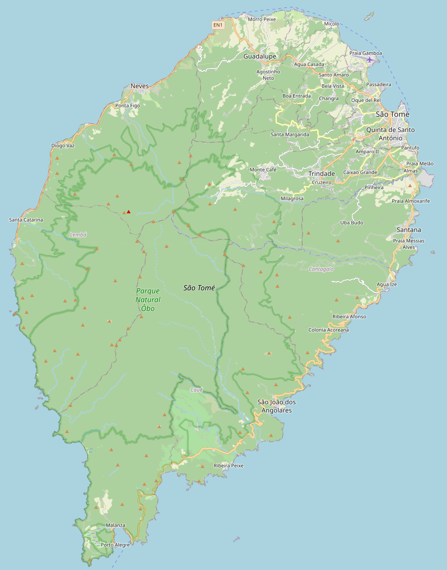 Map of Sao Tome island Geographic limits of the map: N: 0.423° S: 0.022° W: 6.43° E: 6.805°